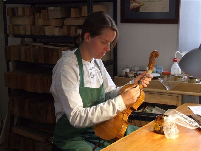 Varnishing a violin by Hildegard Dodel, luthier in Cremona